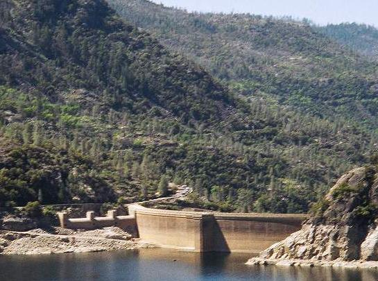 O'Shaughnessy Dam in Yosemite National Park